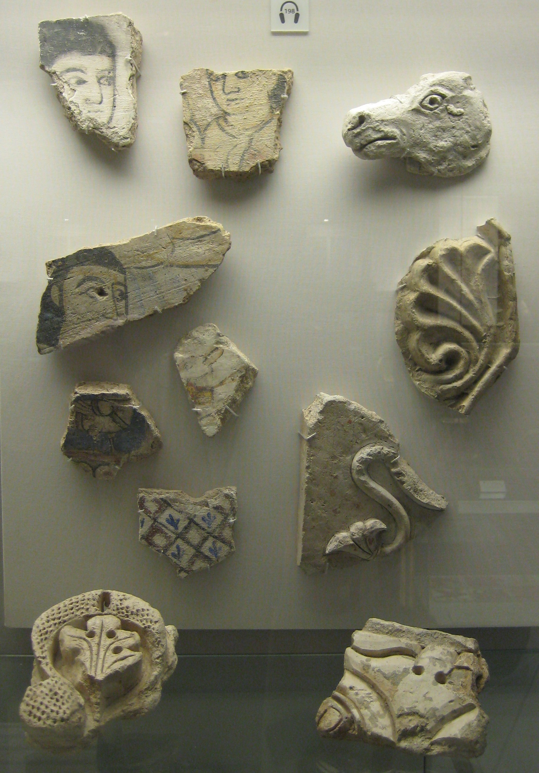 1: Fragment with part of a figure looking left, reverse with herringbone design